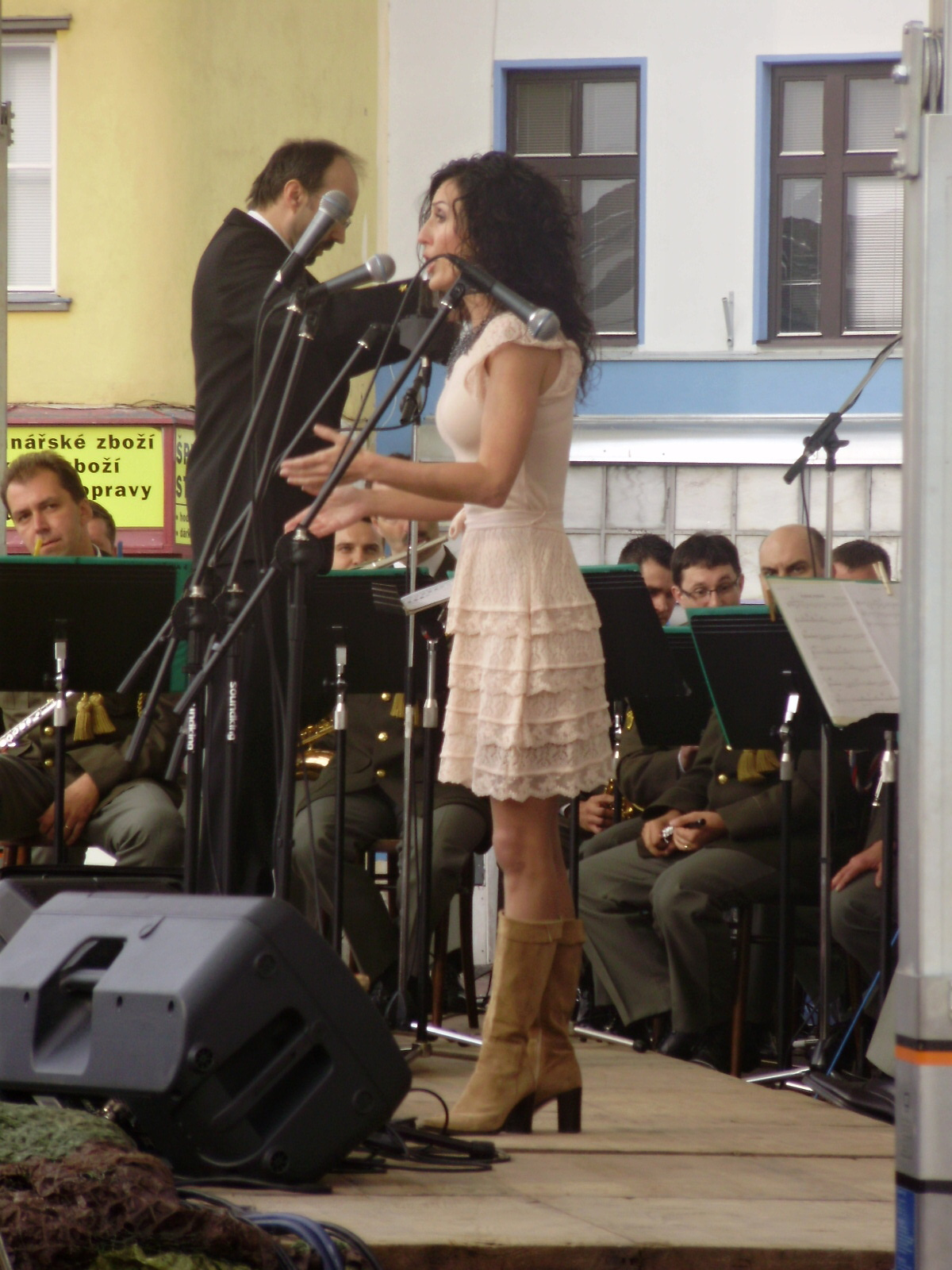 Czech singer Radka Fišarová in the concert in Vyškov (The Czech Republic).